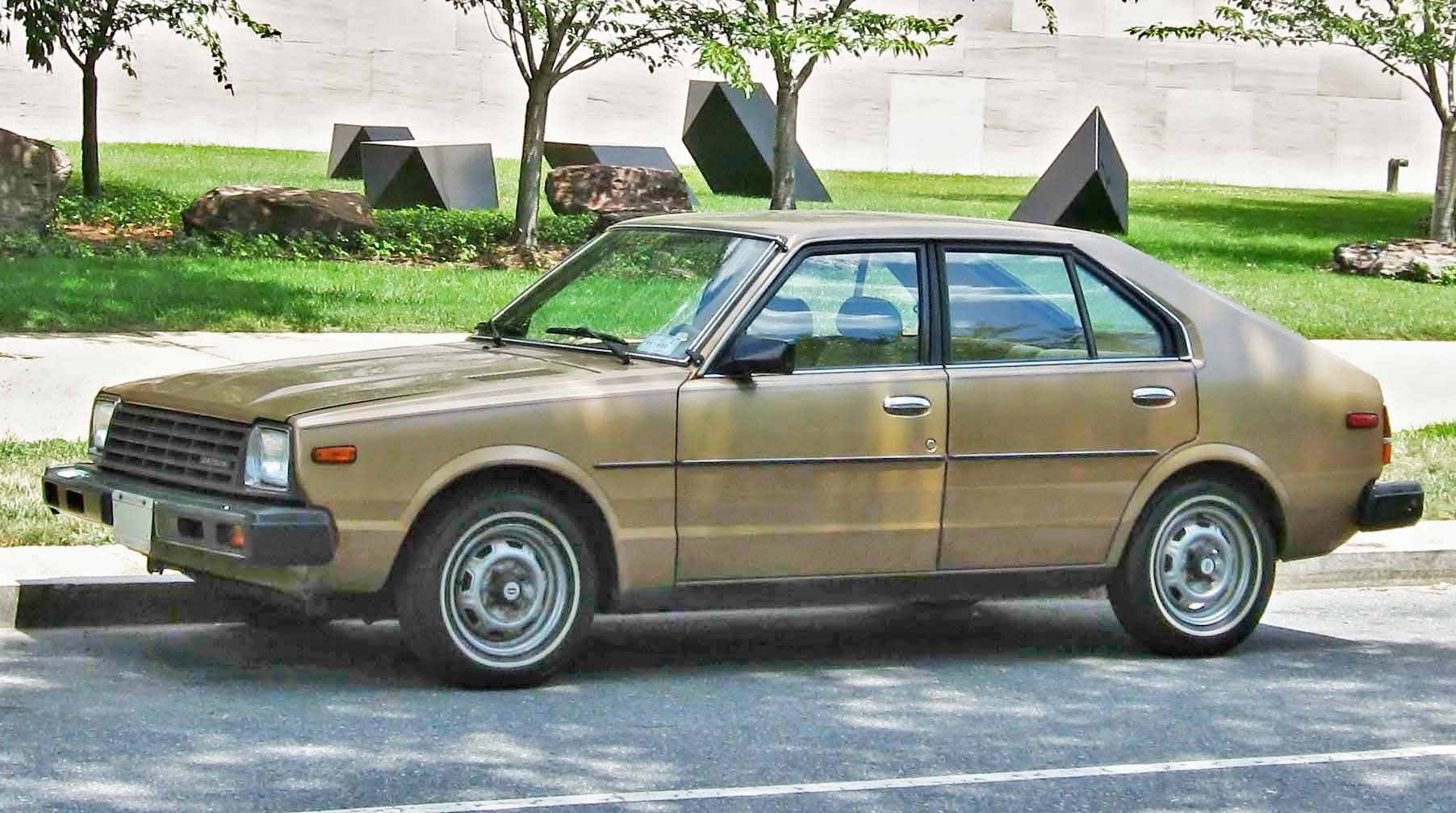 1981-1982 Datsun 310 photographed in USA.